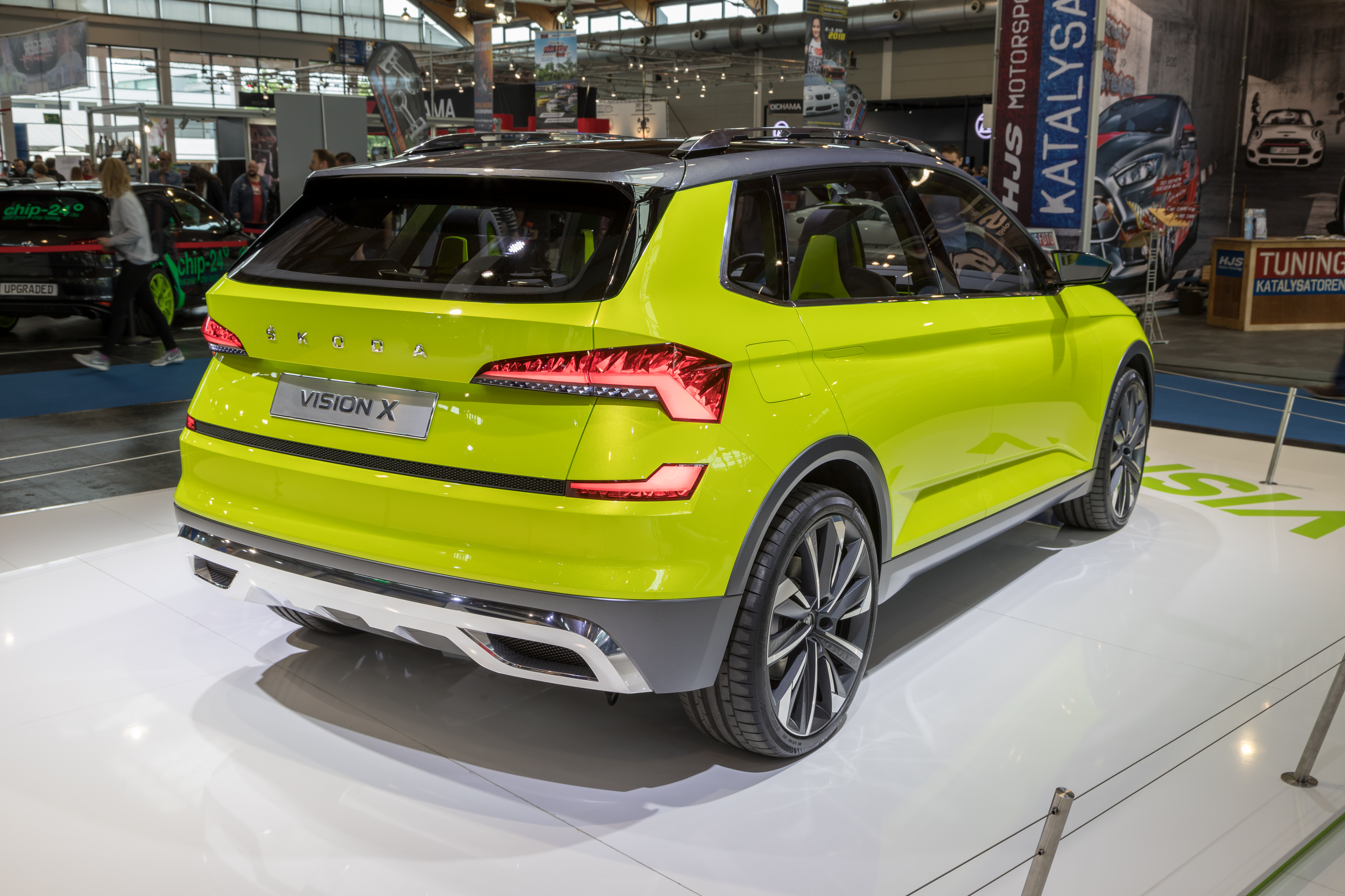 Tuning World Bodensee 2018